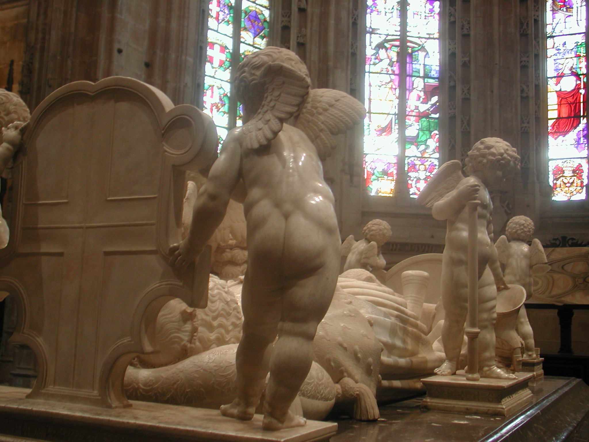 church of Brou, Bourgogne